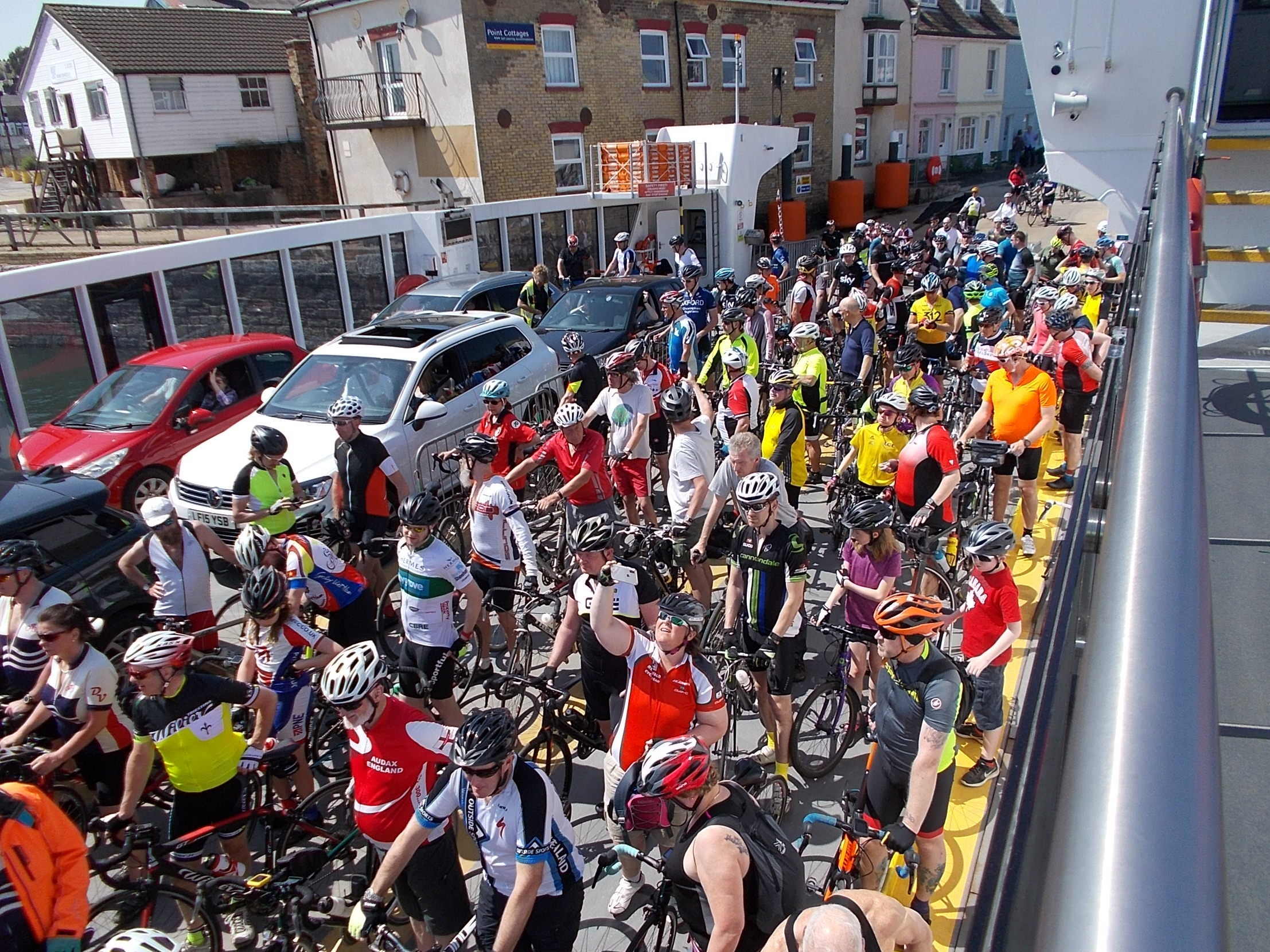 Cyclists participating in the Isle of Wight Randonnée event, crossing on the chain ferry from Cowes to East Cowes.